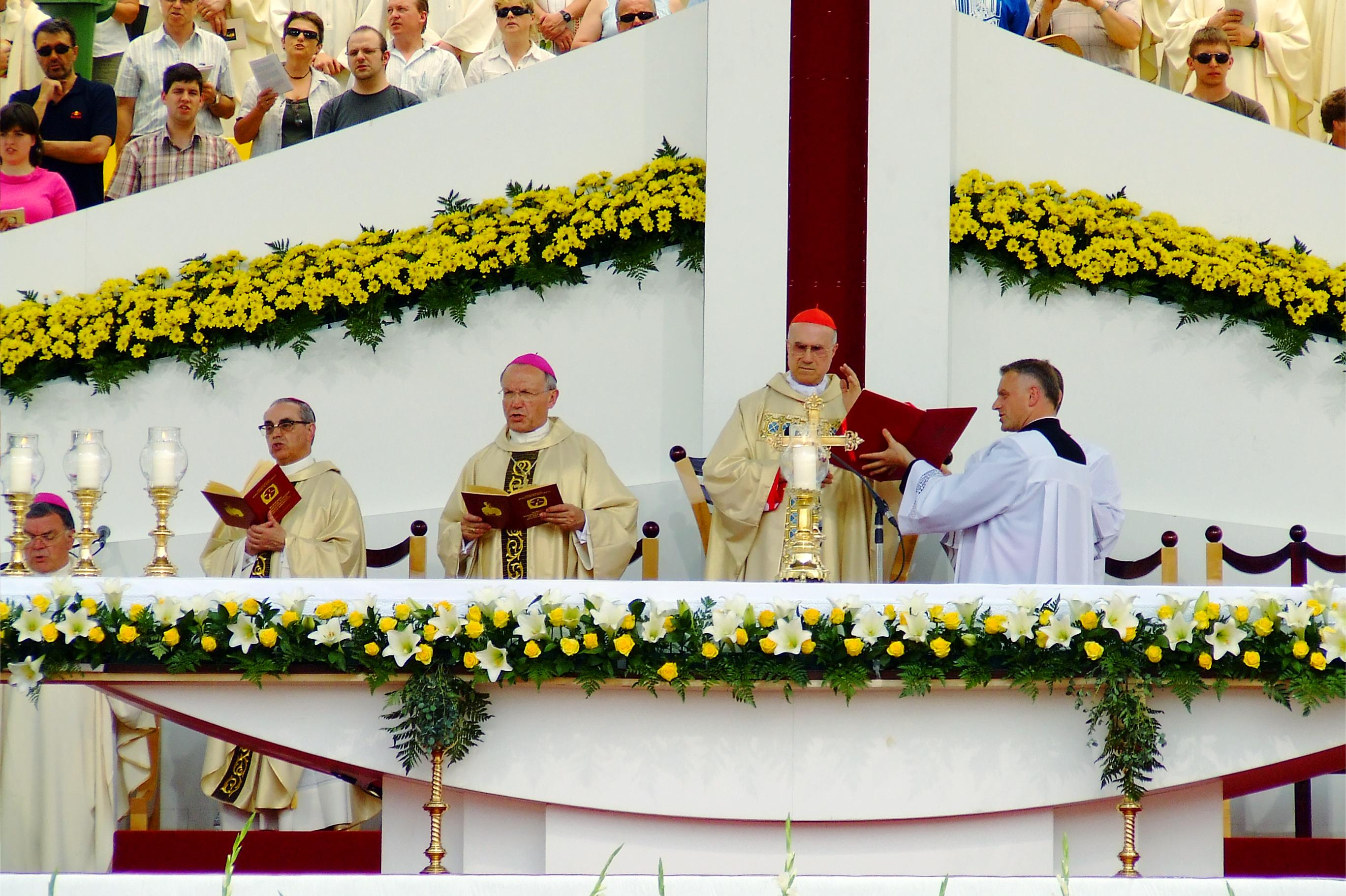 Vid Gajšek's documentary fineart digital photograph shows »Slovenian Eucharistic Congress 2010 on Sunday, 13th June 2010«, a special day of history of Slovene Catholic Church with proclamation of Blessed Aloysius Grozde (became first Slovene martyr for holy faith), happened within Eucharistic celebration in the holy faith in Jesus Christ, present in the Corpus holy body and blood.